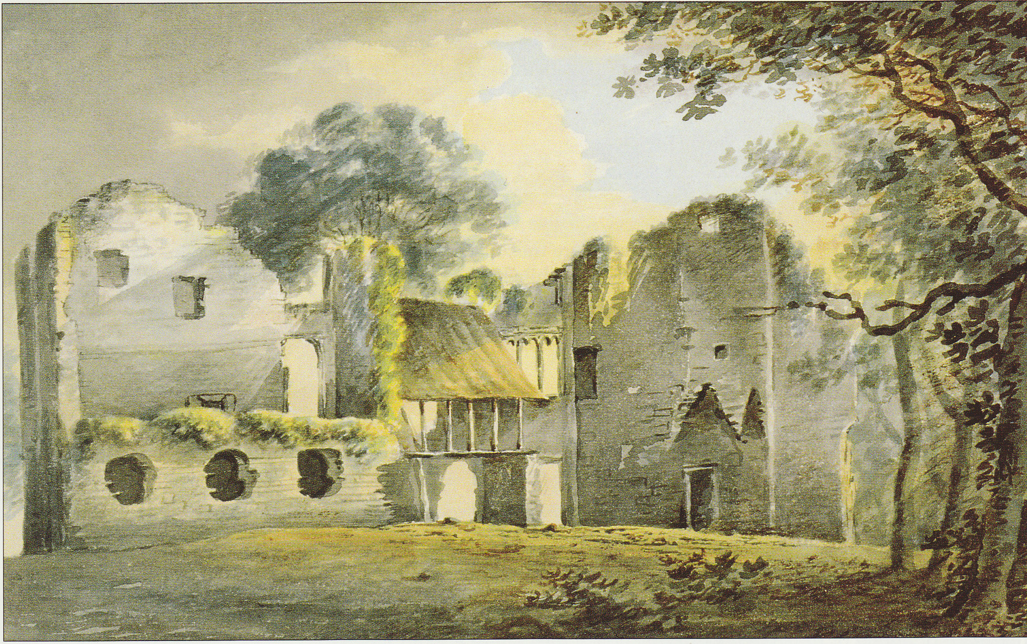 "Inside of Colecombe Castle", watercolour by Rev. John Swete dated 26 January 1795. Devon Record Office 564M/F7/73. Published in Gray, Todd (Ed.), Travels in Georgian Devon: The Illustrated Journals of the Reverend John Swete, 1789-1800, 4 Vols., Vol.2, 1998, Tiverton, p.110